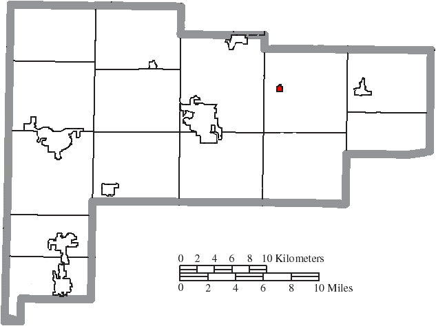 Map of the municipal and township boundaries of Auglaize County, Ohio, United States, as of the 2000 census, with the location of the village of Uniopolis highlighted. Township borders are shown only in unincorporated areas in order to differentiate incorporated and unincorporated areas more clearly.